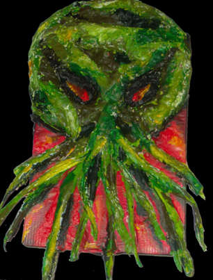 The Rise of Cthulhu